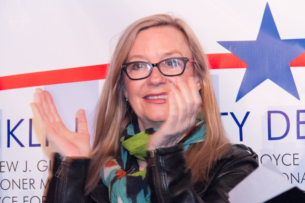 Franklin County, Ohio Clerk of Courts and former Columbus City Council member Maryellen O'Shaughnessy in March 2016.